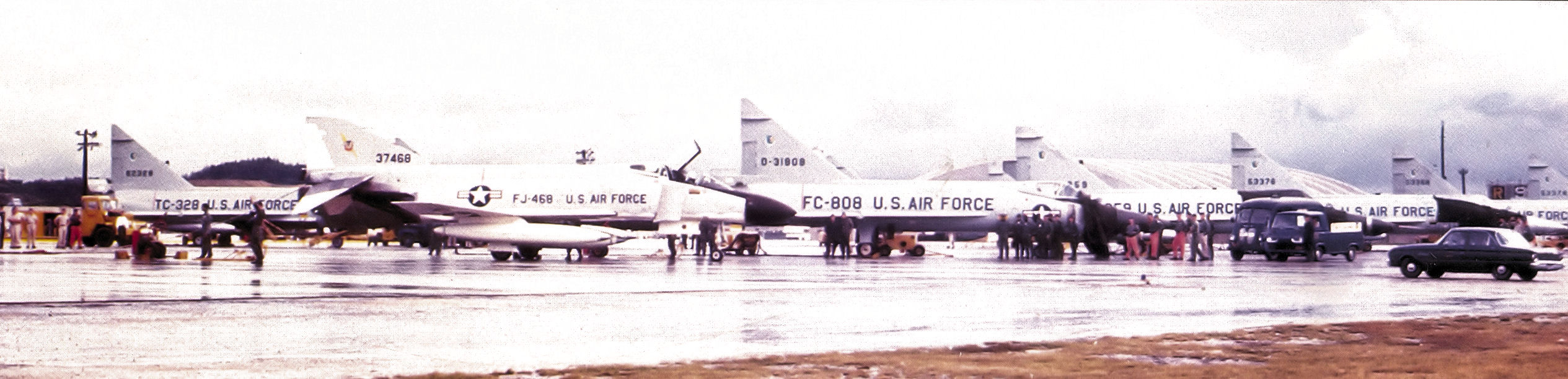 16th Fighter-Interceptor Squadron F-102s on flight line, Naha Air Base Okinawa 1966